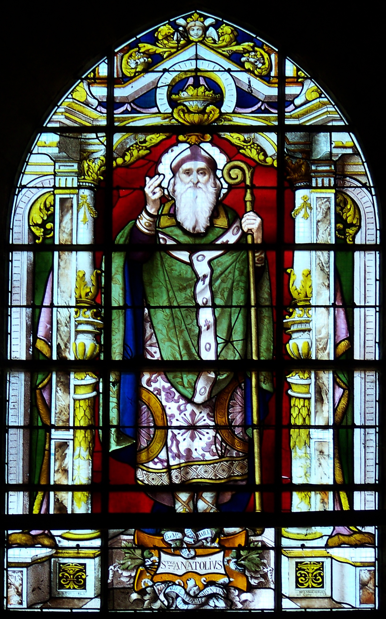 Saint Anatolius of Milan. Tainted glass window in the church of Ablis, Yvelines, France. Unknown author, fourth quarter of XIXth century.